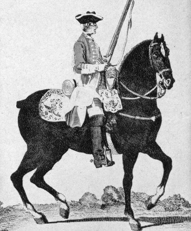 dragoon (mounted soldier) of the British Army, 1742. Original title: "11th Regiment of Dragoons"